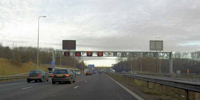 M42 traffic management gantries Speed limits and instructions to use hard shoulder. This was an experiment that is to be replicated around the country including sections of the M1 near Sheffield.